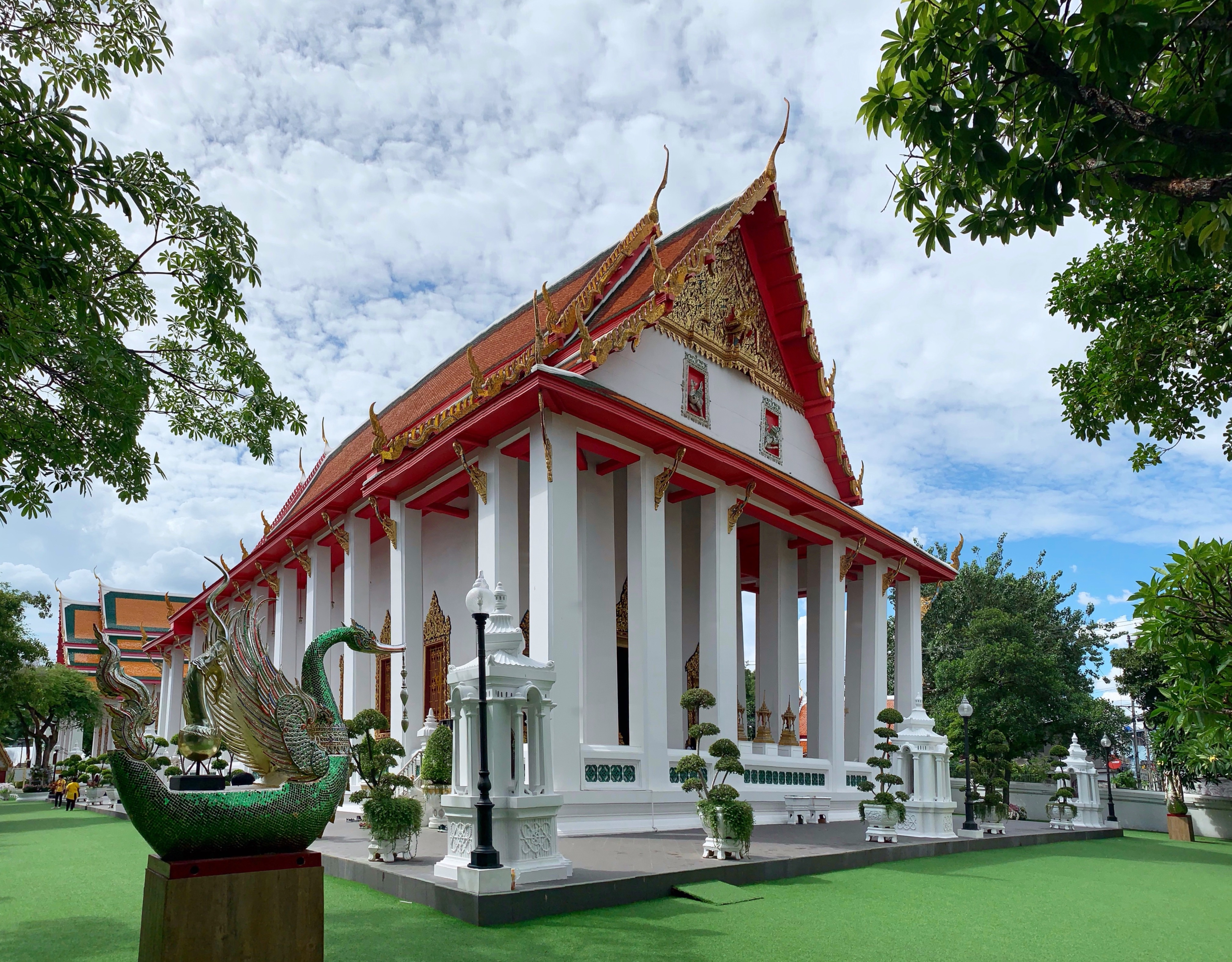 Wat Hong Rattanaram